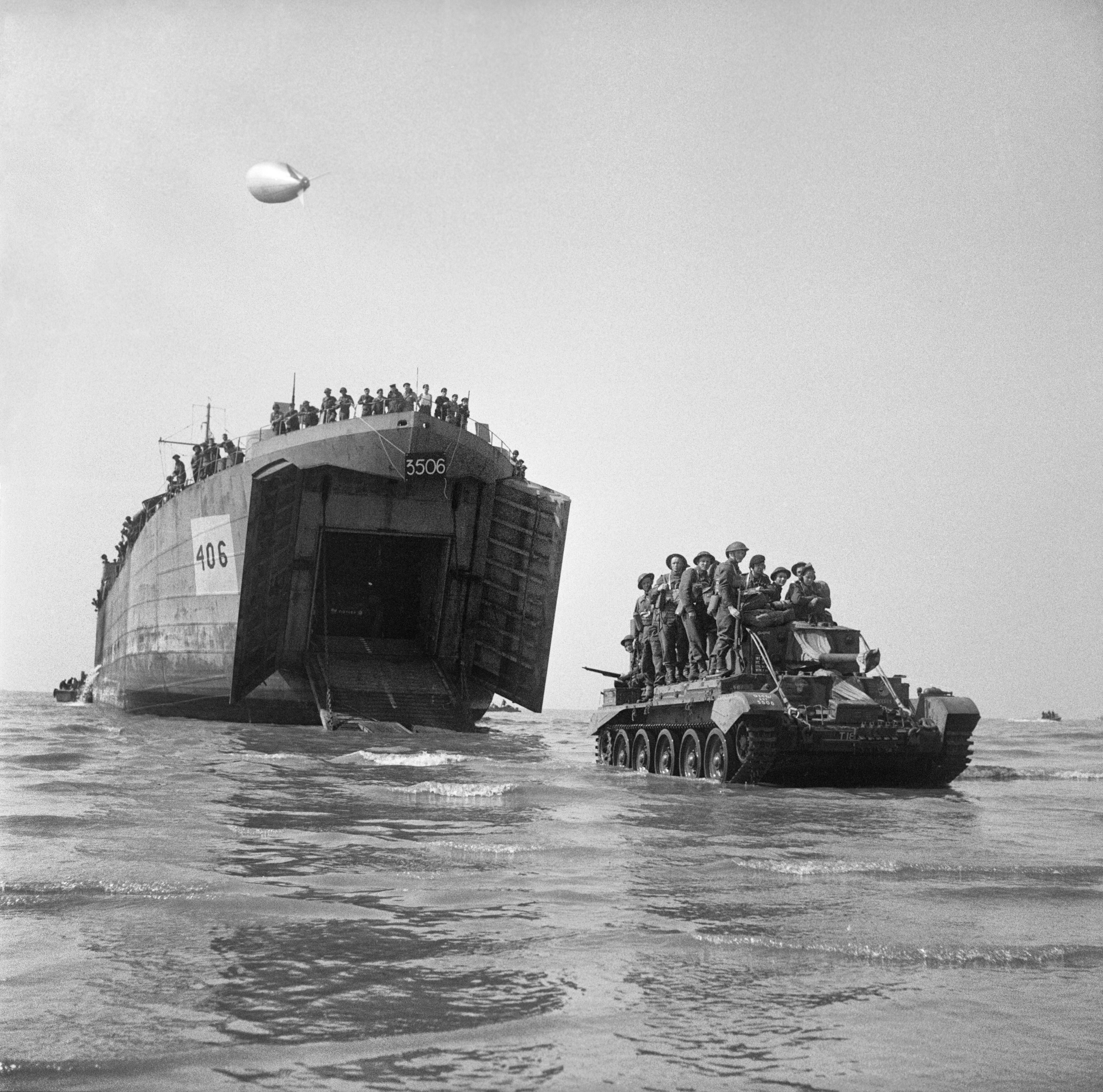 The British Army in the Normandy Campaign 1944 A Cromwell Mk IV tank of 4th County of London Yeomanry, 22nd Armoured Brigade, 7th Armoured Division, with infantry aboard, comes ashore from an LST, Gold area, 7 June 1944.